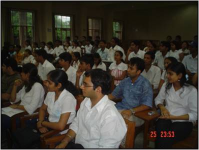 BRAC STudents